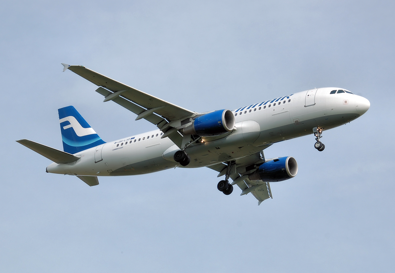 Finnair Airbus A320-200 (OH-LXD) lands at London Heathrow Airport, England.